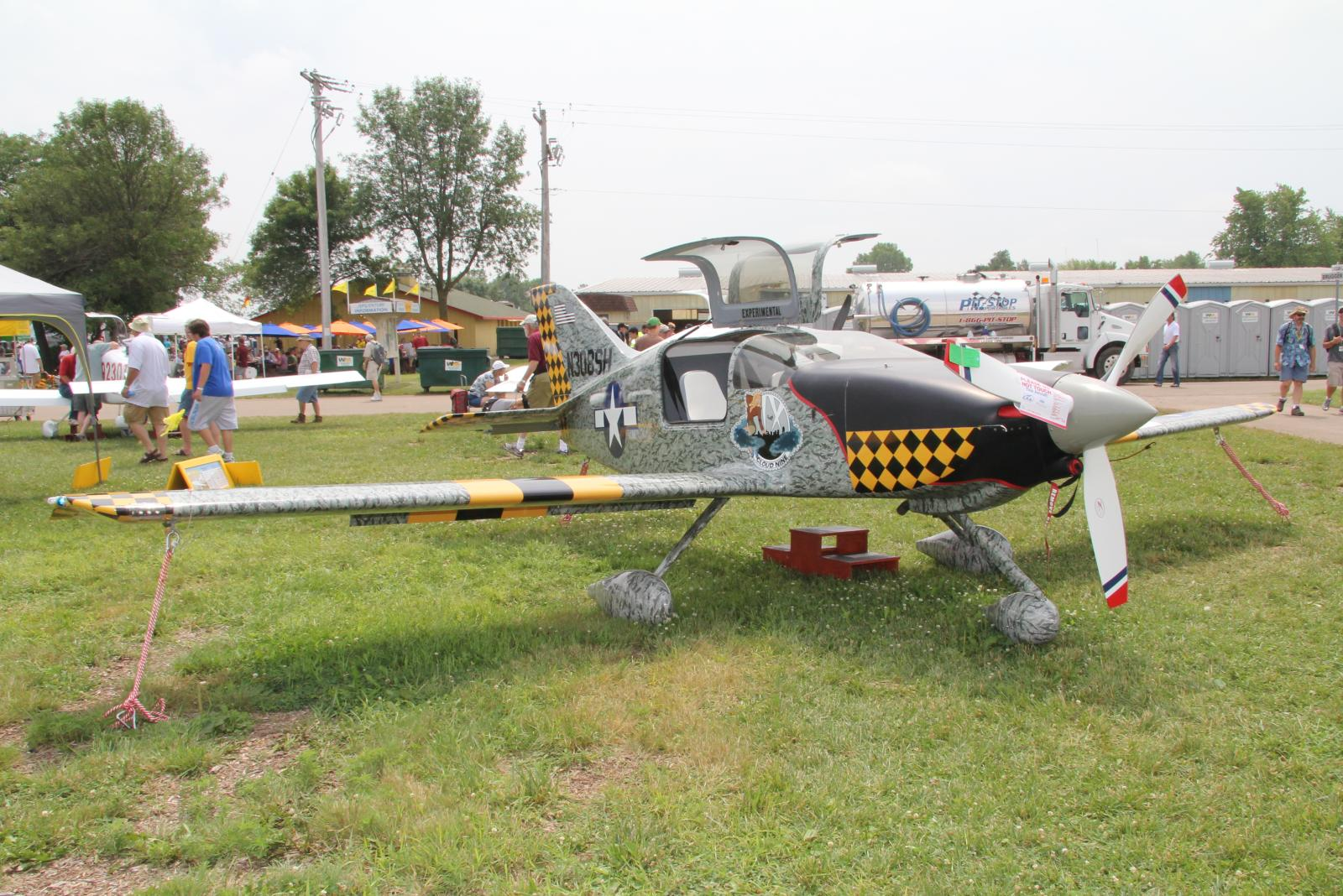 Parnell David S Tango II (N308SH)